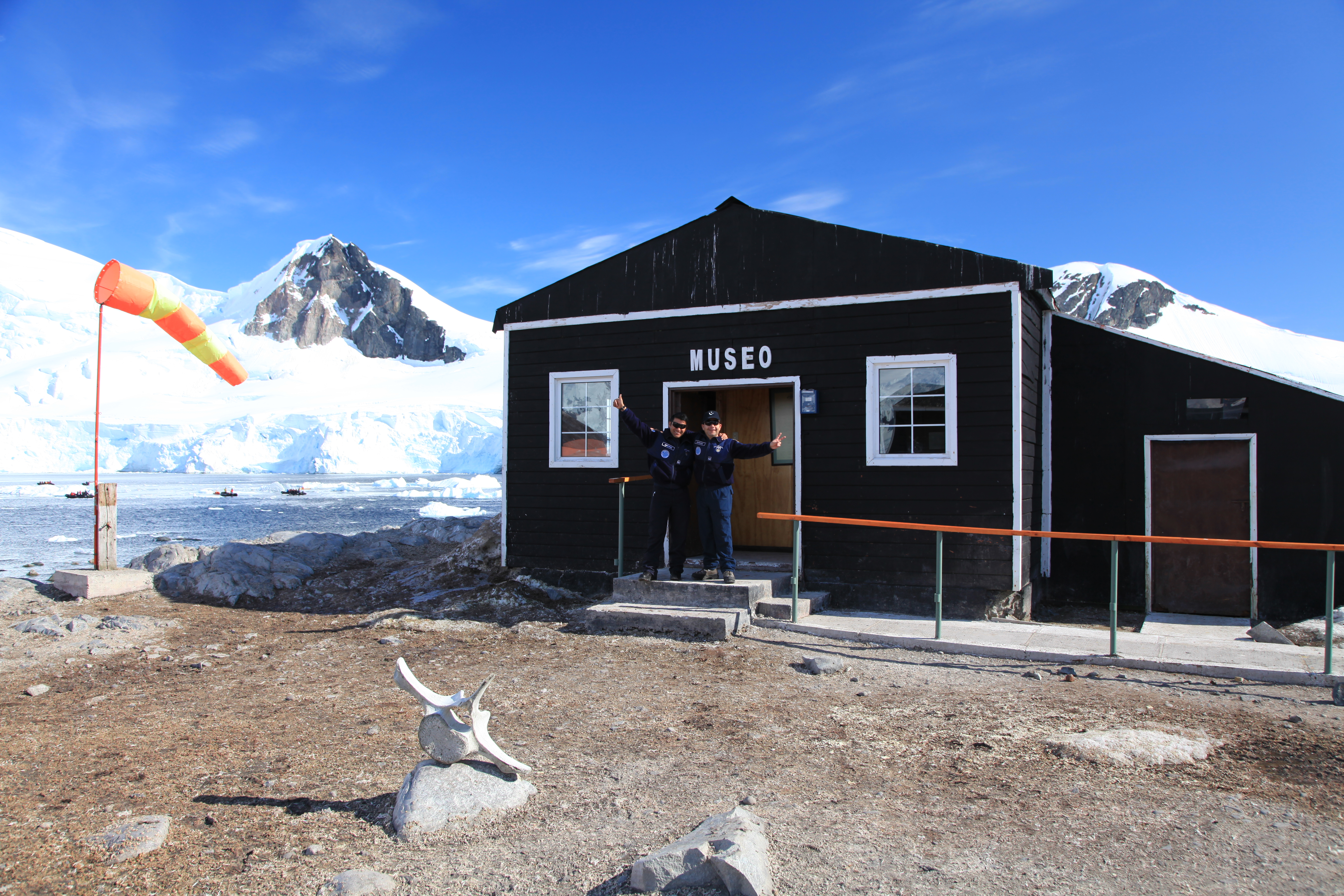 Chilean Air Force officers give a warm greeting in front of the museum at González Videla Station, Antarctica.